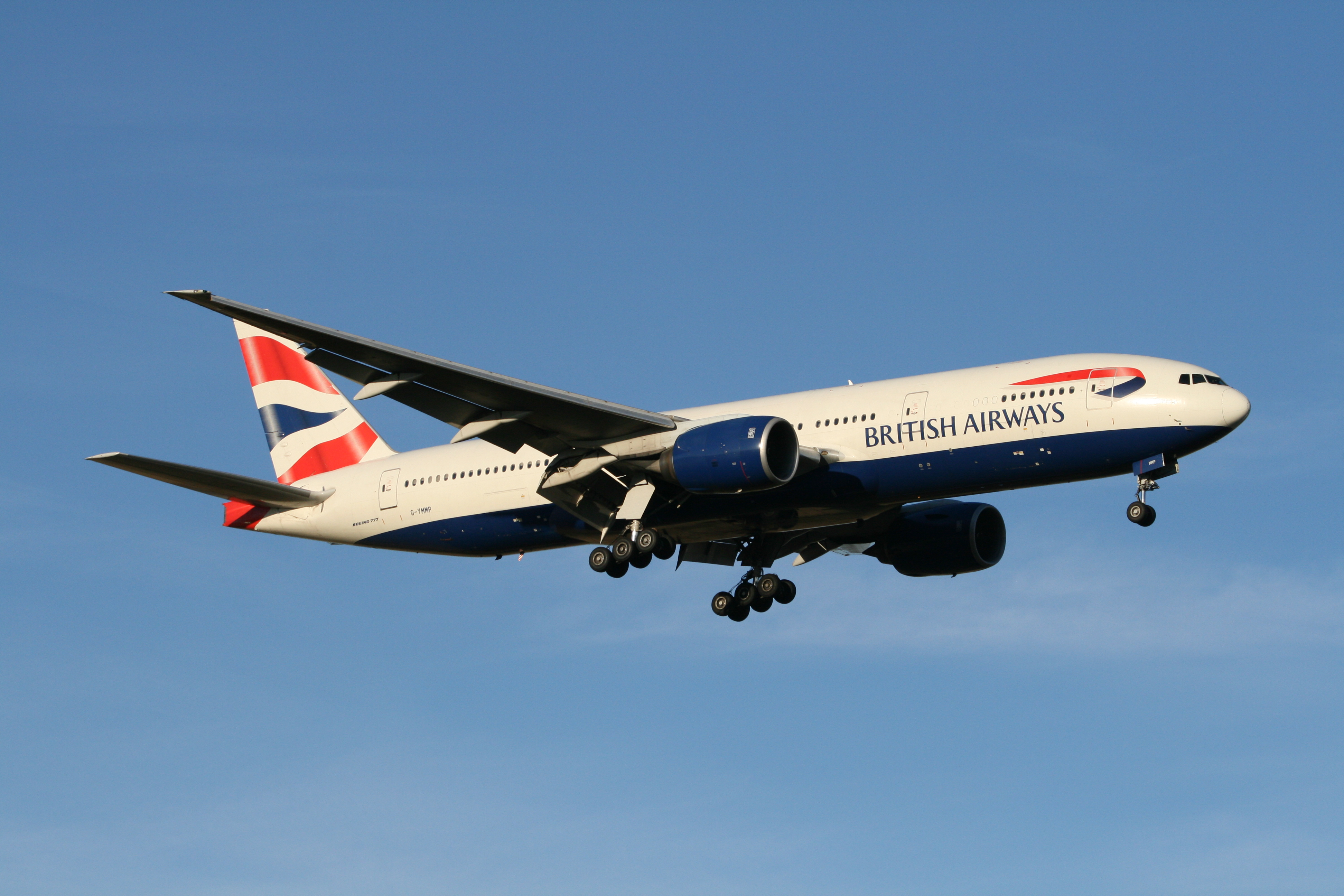 Speedbird 103 heavy on final for YYC